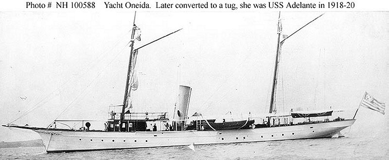 Photographed prior to World War I. Note the U. S. Yacht Ensign flying from her stern. USN Photograph NH 100588